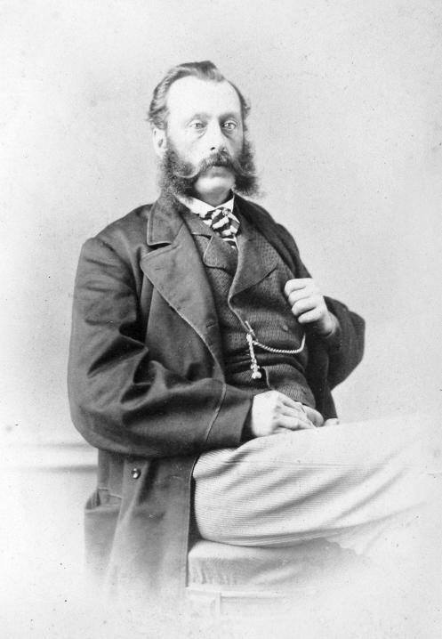 Photograph, Louis Adelard Senecal, Montreal, QC, 1866, William Notman (1826-1891), Silver salts on paper mounted on paper - Albumen process - 8 x 5 cm